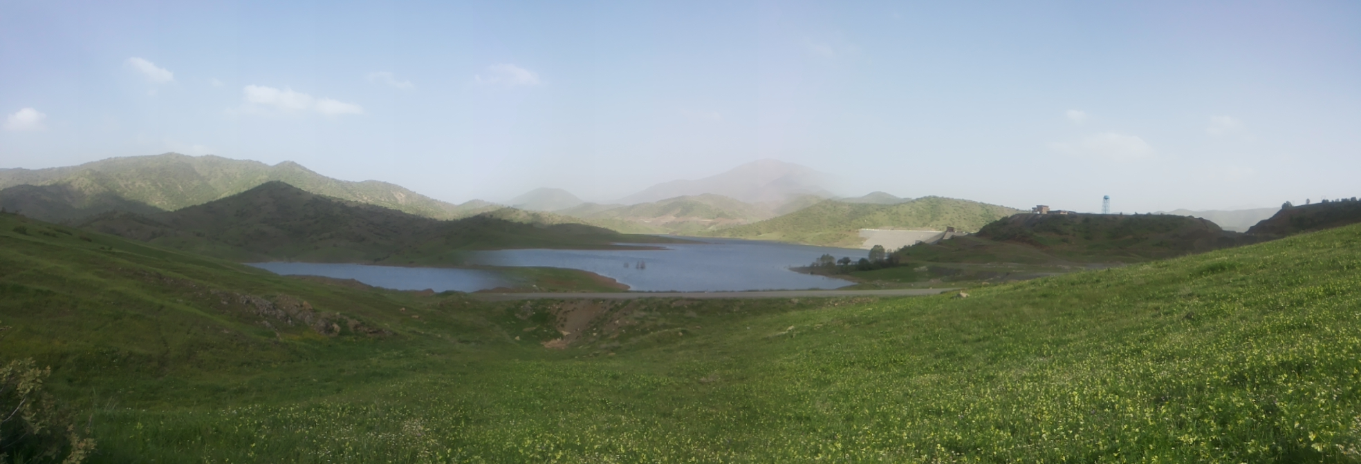 Garan dam in Spring